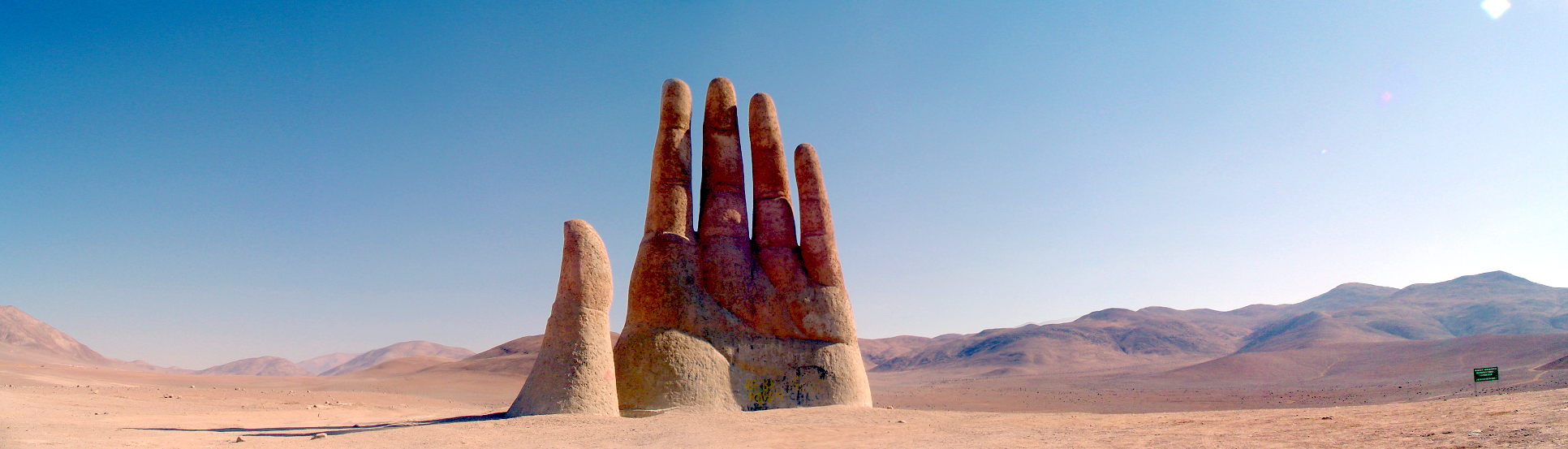 Desert's Hand. Sculpture by Mario Irarrázabal.